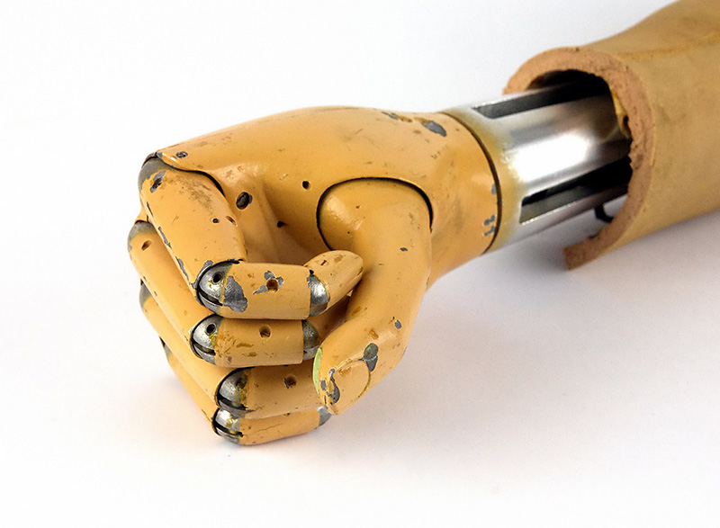 Belgrade prosthetic hand, made in Institute "Mihajlo Pupin" in Belgrade